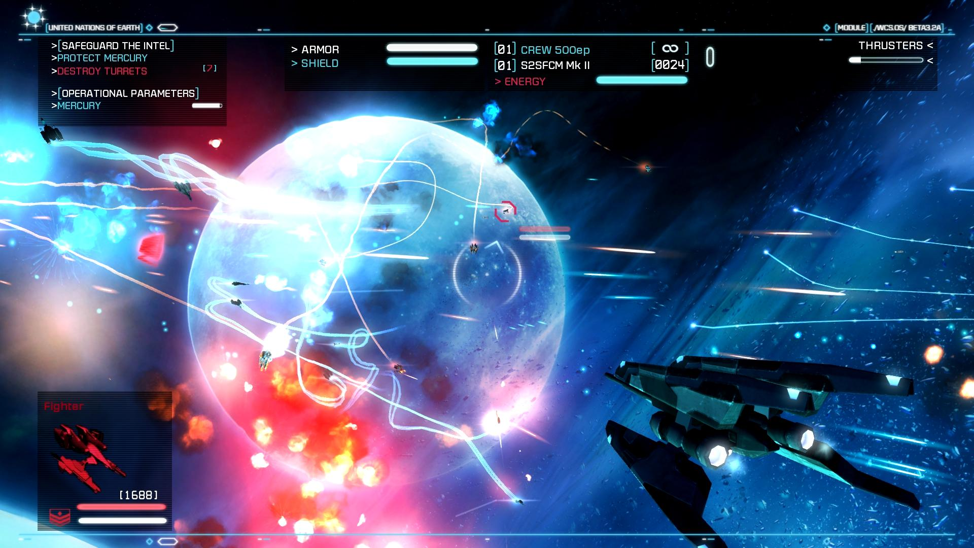 Strike Suit Zero screenshot. Released in 2013, the game was developed by Born Ready Games.